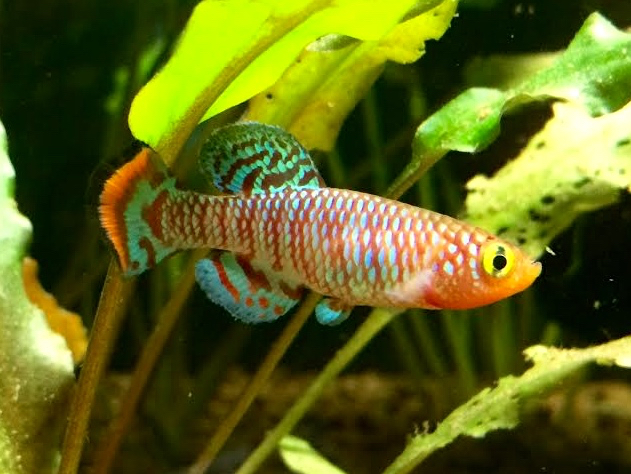 Male Nothobranchius rachovii in captivity